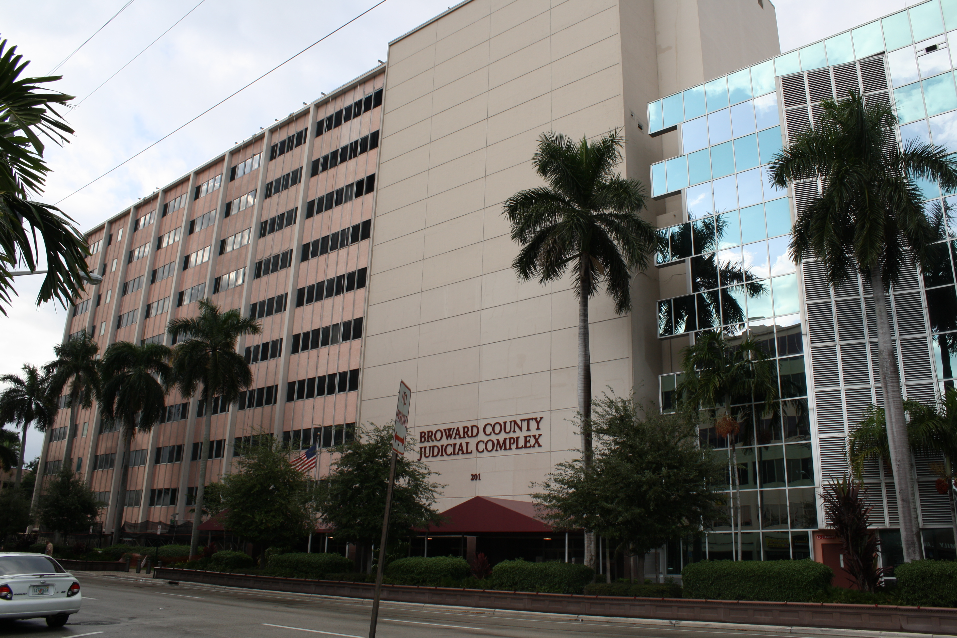 Courthouse, Broward County, Fort Lauderdale, FL